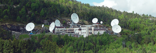 Eik Teleport, Norway.